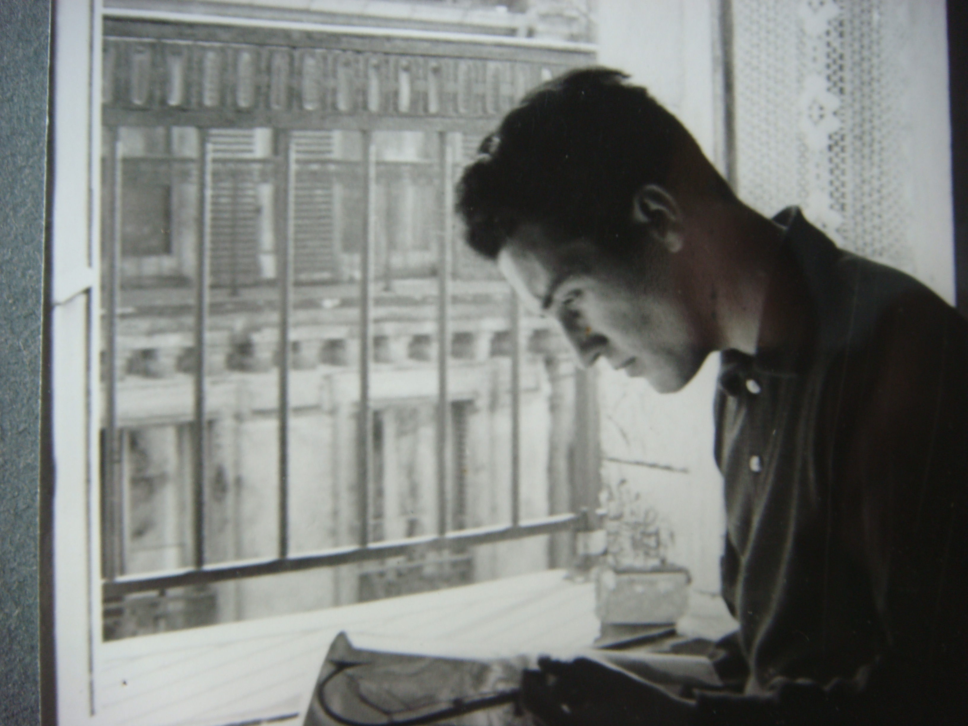 Jiménez-Balaguer in Paris in 1960